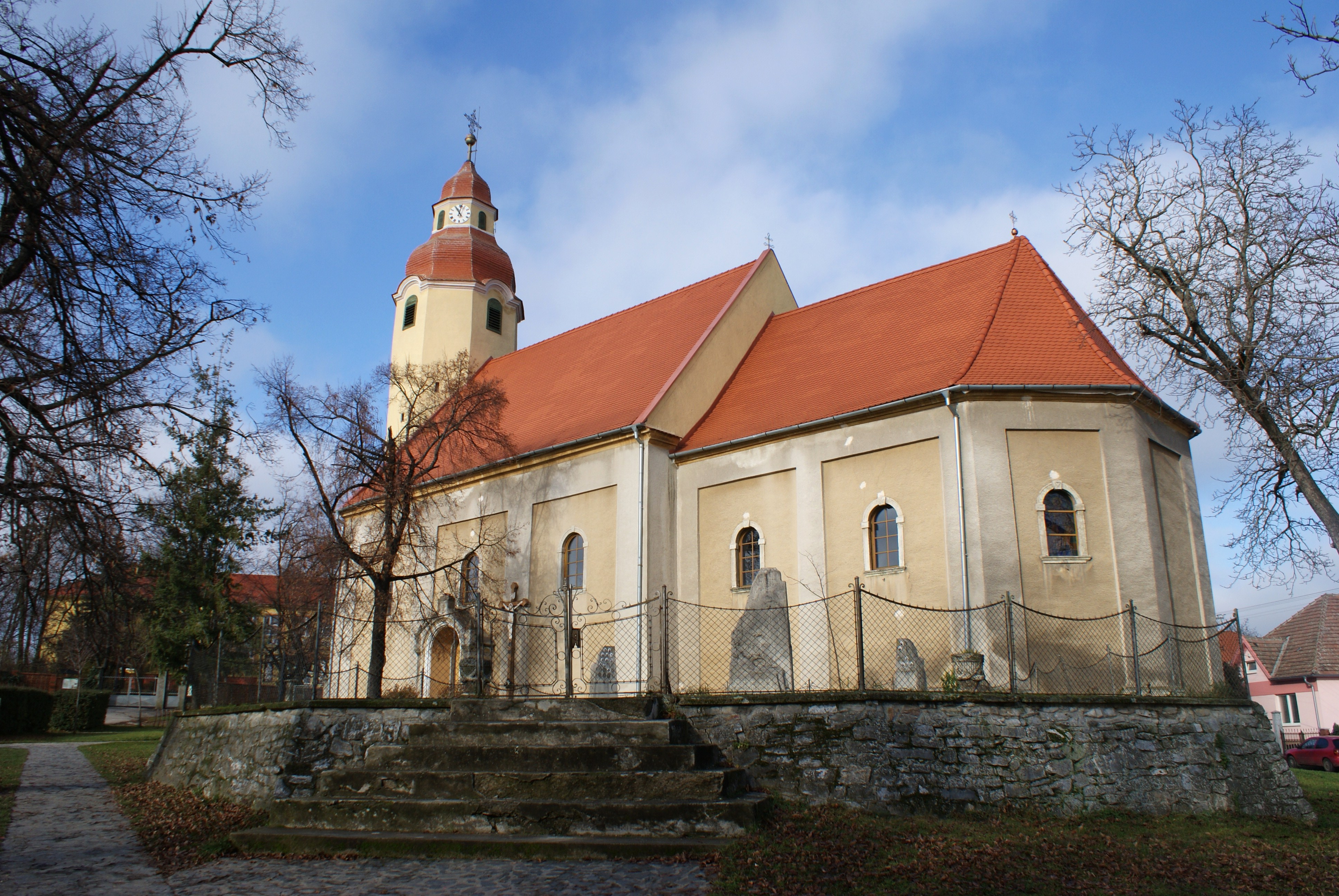 Suchá nad Parnou, a village in Trnava district, Slovakia, church.